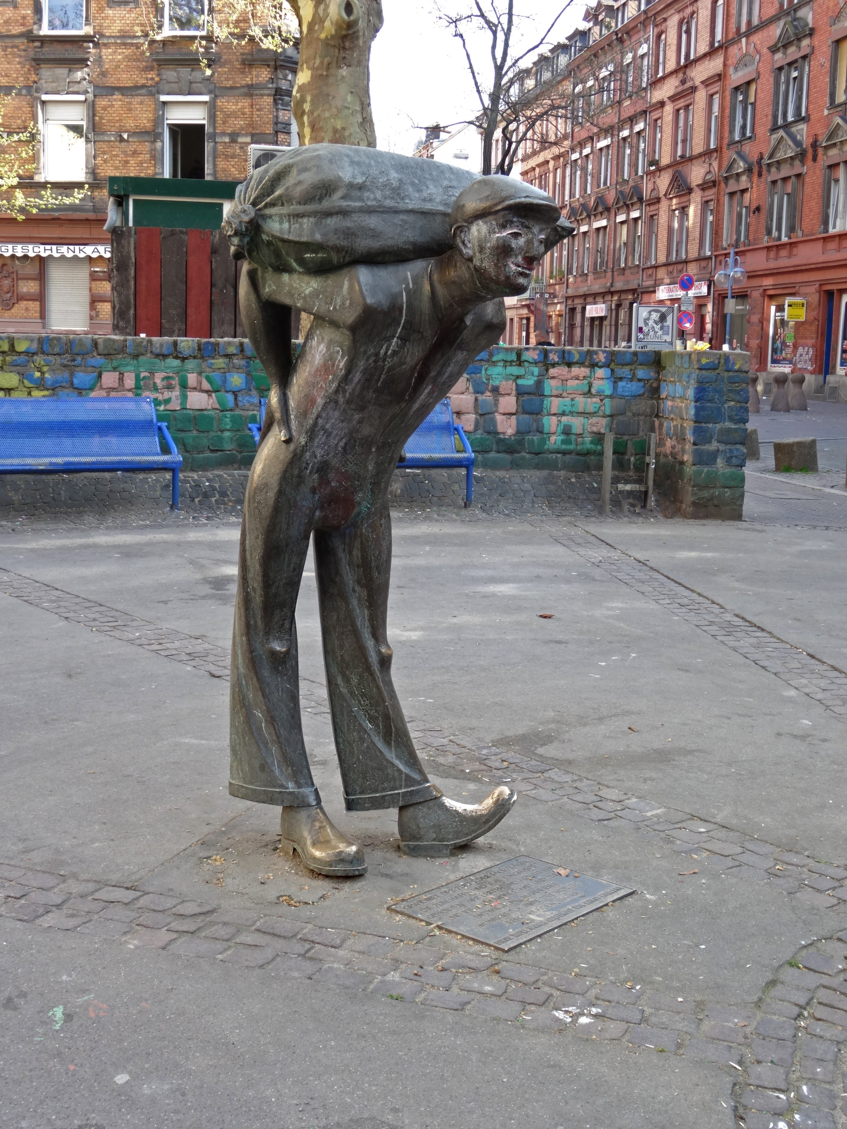 Bag carrier monument Mannheim, Germany